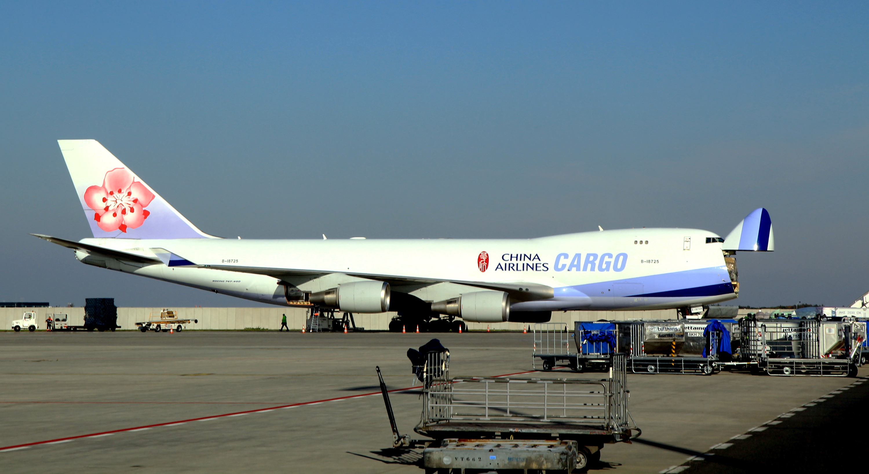 Cargo aircraft Boeing 747-400F loading cargo on Václav Havel Airport Prague, Czech Republic